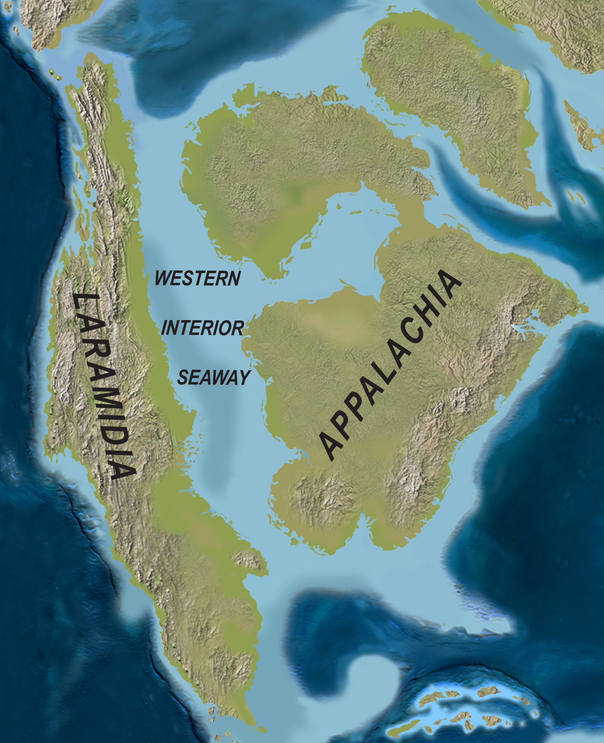 Map of North America with the Western Interior Seaway during the Campanian (Upper Cretaceous). Paleogeography of North America during the late Campanian Stage of the Late Cretaceous (∼75 Ma). Modified after Blakey.